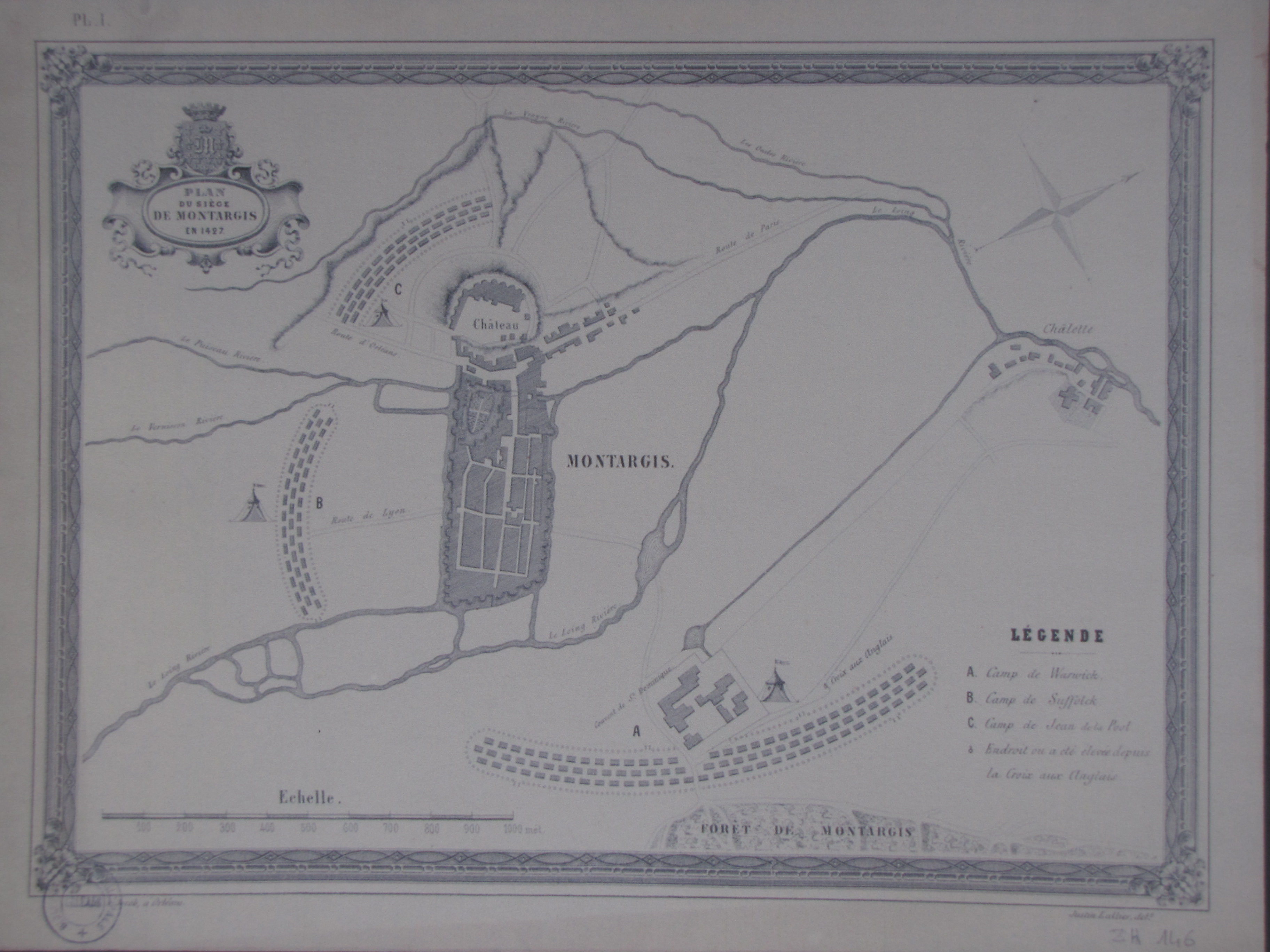 siege of Montargis in 1427.